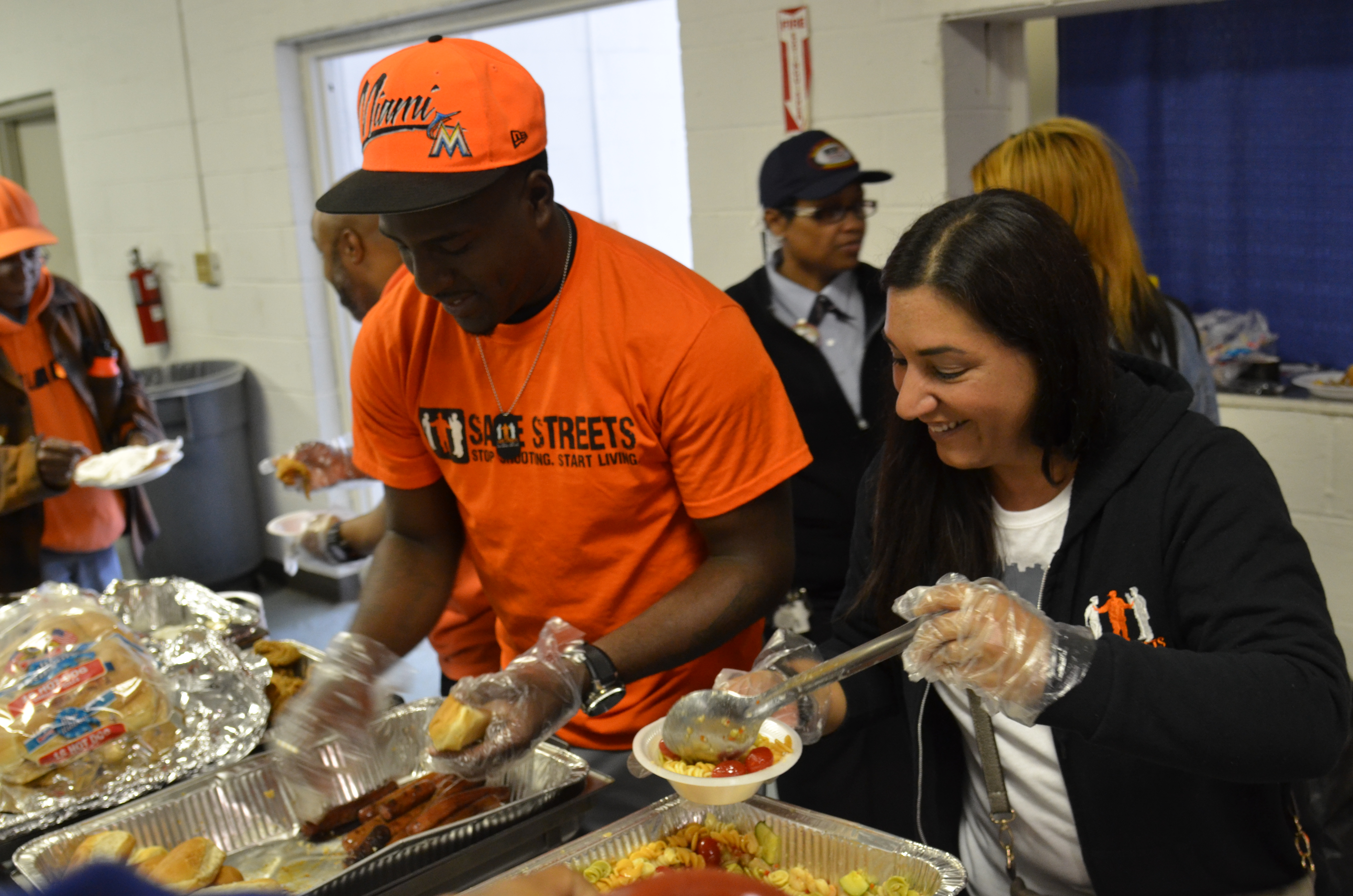 Celebrating More Than One Year With No Homicides